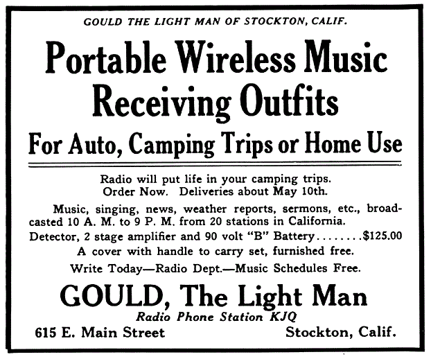 Gould The Light Man was an electrical store in Stockton, California owned by Clarence O. Gould, who also held the license for radio station KJQ from 1921-1925